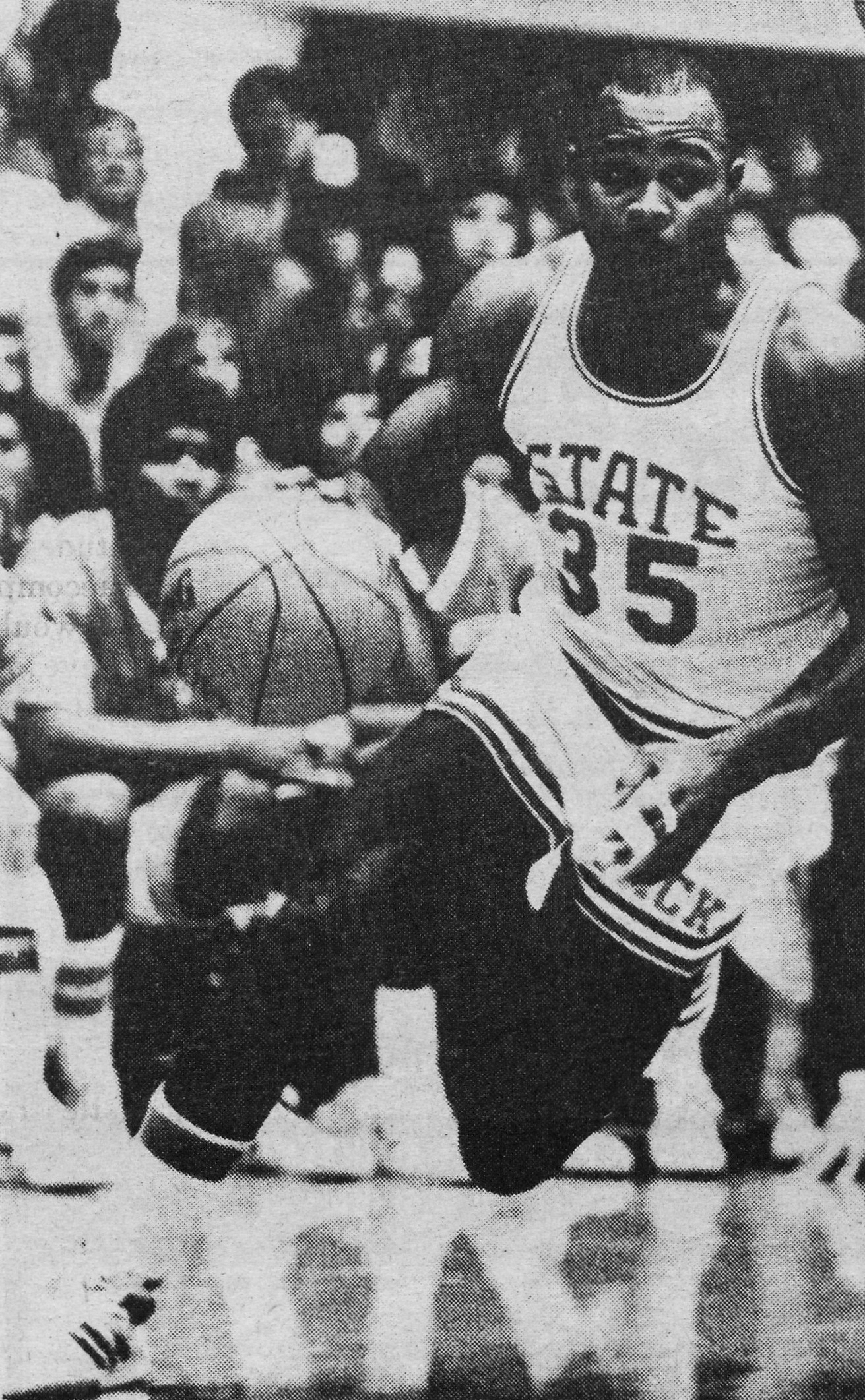 A page from The Chronicle, the student newspaper of Duke University